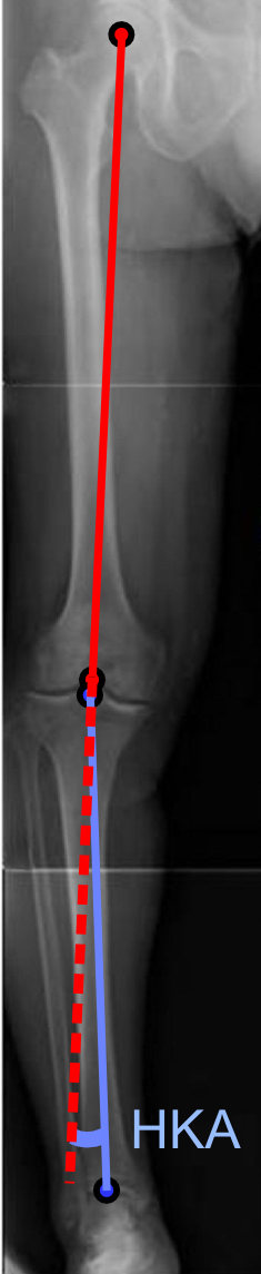 Projectional radiograph of the right leg, with hip-knee-ankle angle (HKA)